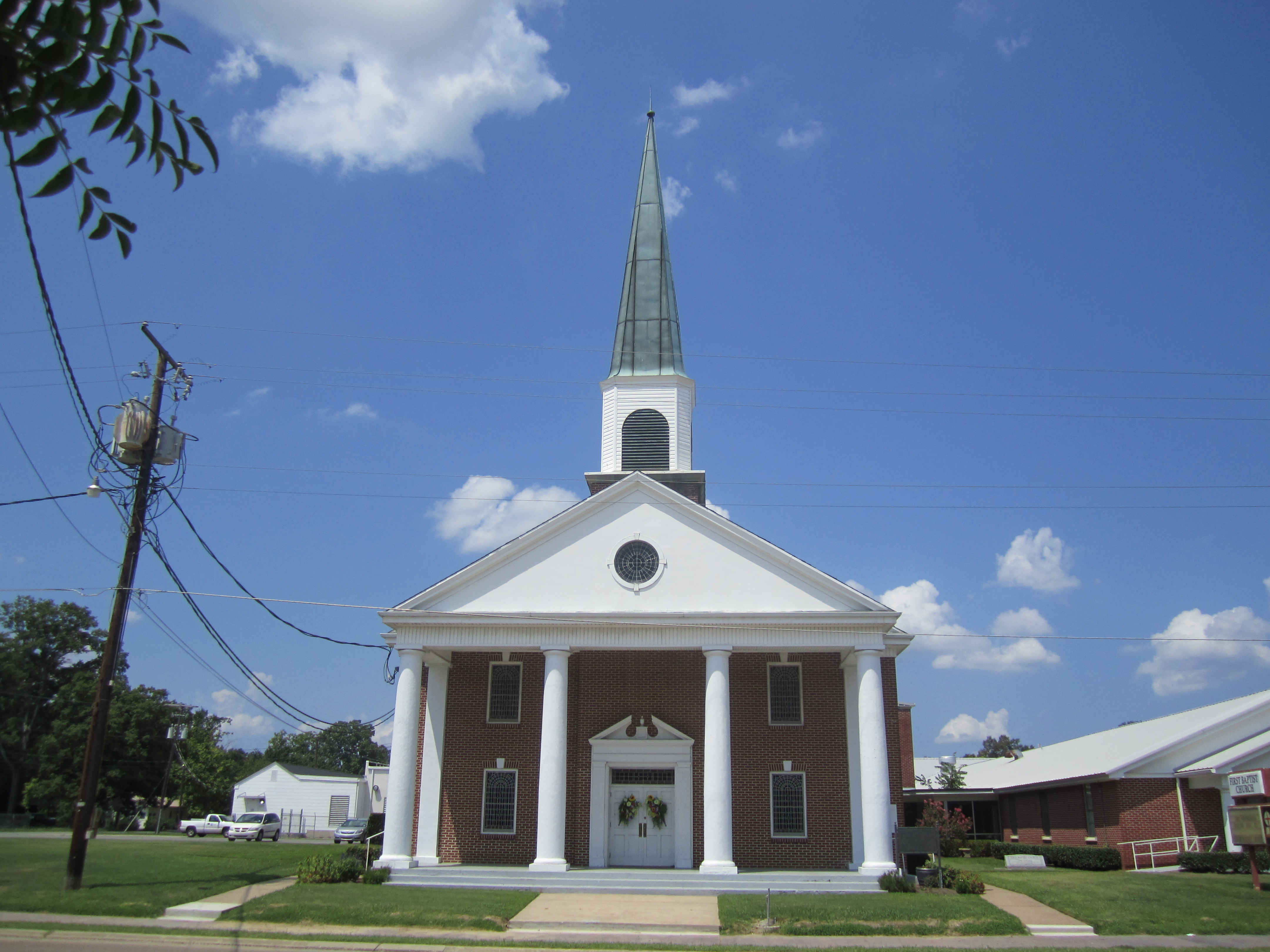 I took photo with Canon camera in Delhi, LA.